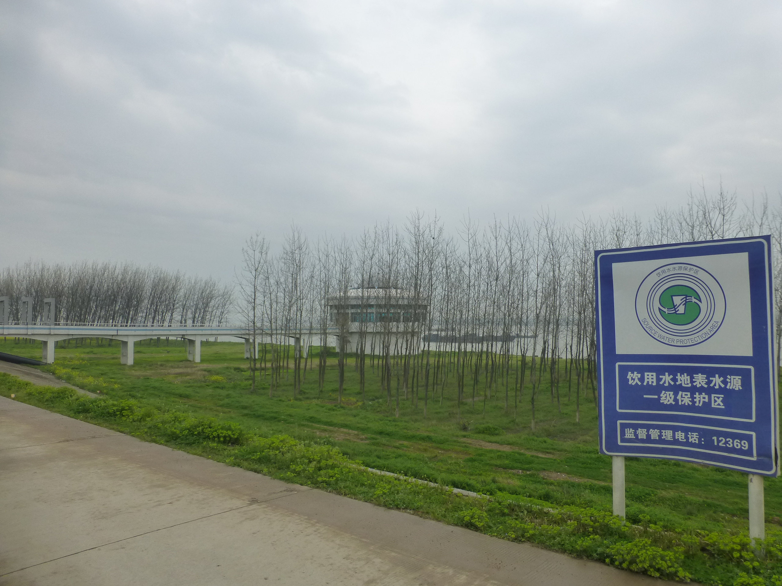 A view from the embankment on the right bank of the Yangtze near Panjiawan Town, Jiayu County, Hubei. The round building is a water pumping station, taking water from the river for the town's water supply system. The surrounding area is designated as a water source protection area.